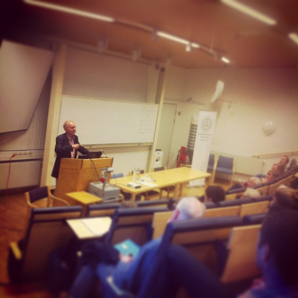 Picture from Stig Fredriksons lecture for Utrikespolitiska föreningen Göteborg.